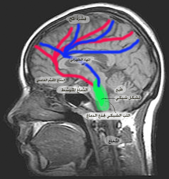 Picture of a human brain rendered with an fMRI scanner. The dorsal pathway, activates the cerebral cortex via the thalamus. The ventral pathway involves the hypothalamus and basal forebrain in cortical activation.